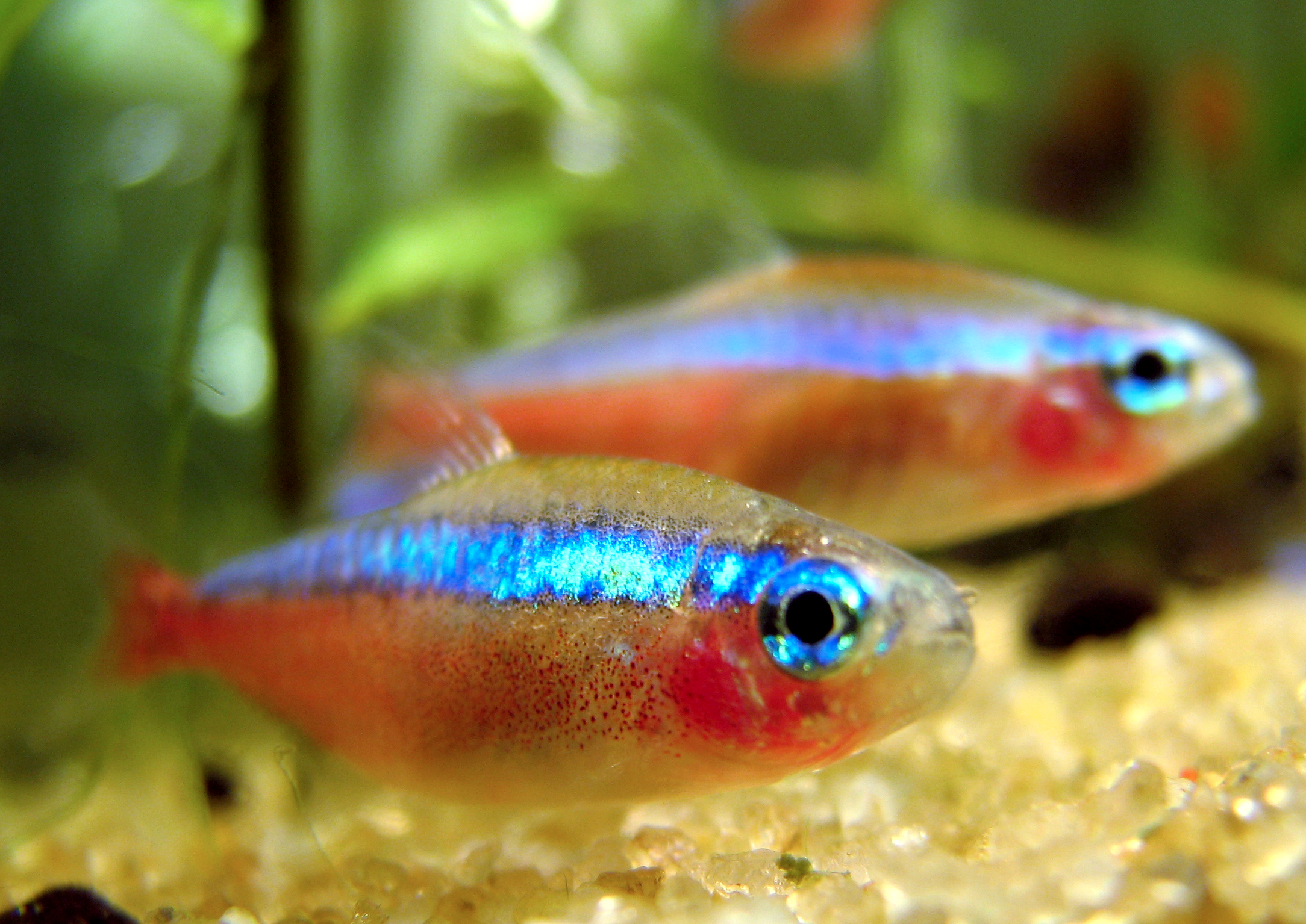 Cardinal tetras Paracheirodon axelrodi waking up in an aquarium. Just after the lights were turned on. Its skin yet in a pink tone.